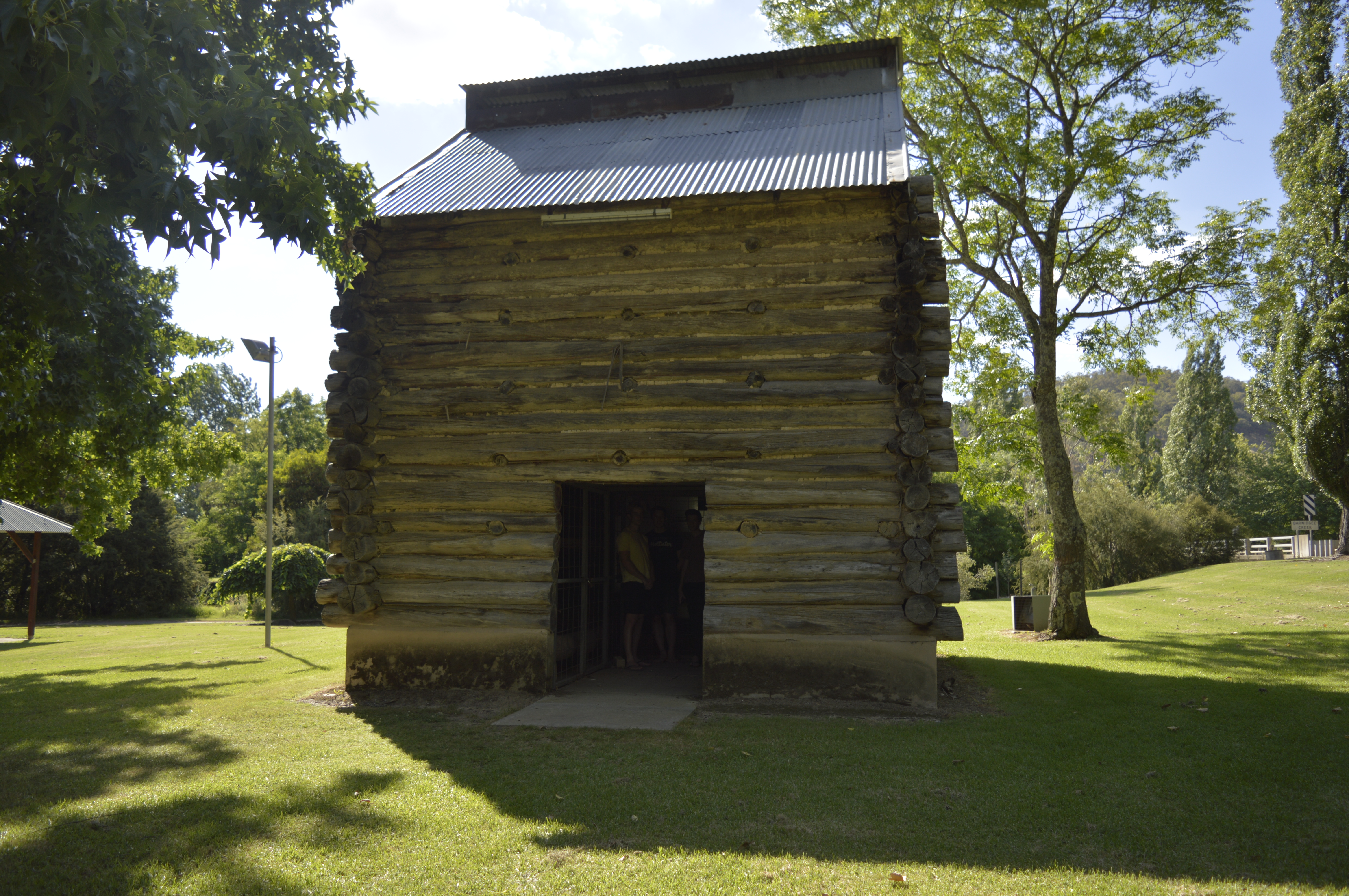 Photo of a Tobacco drying kiln in Myrtleford, Victoria, Australia taken in 2018. Kilns like this were built from the early 1900's through to the late 1960's. This example was made in 1957, and moved to Rotary Park in 2000.